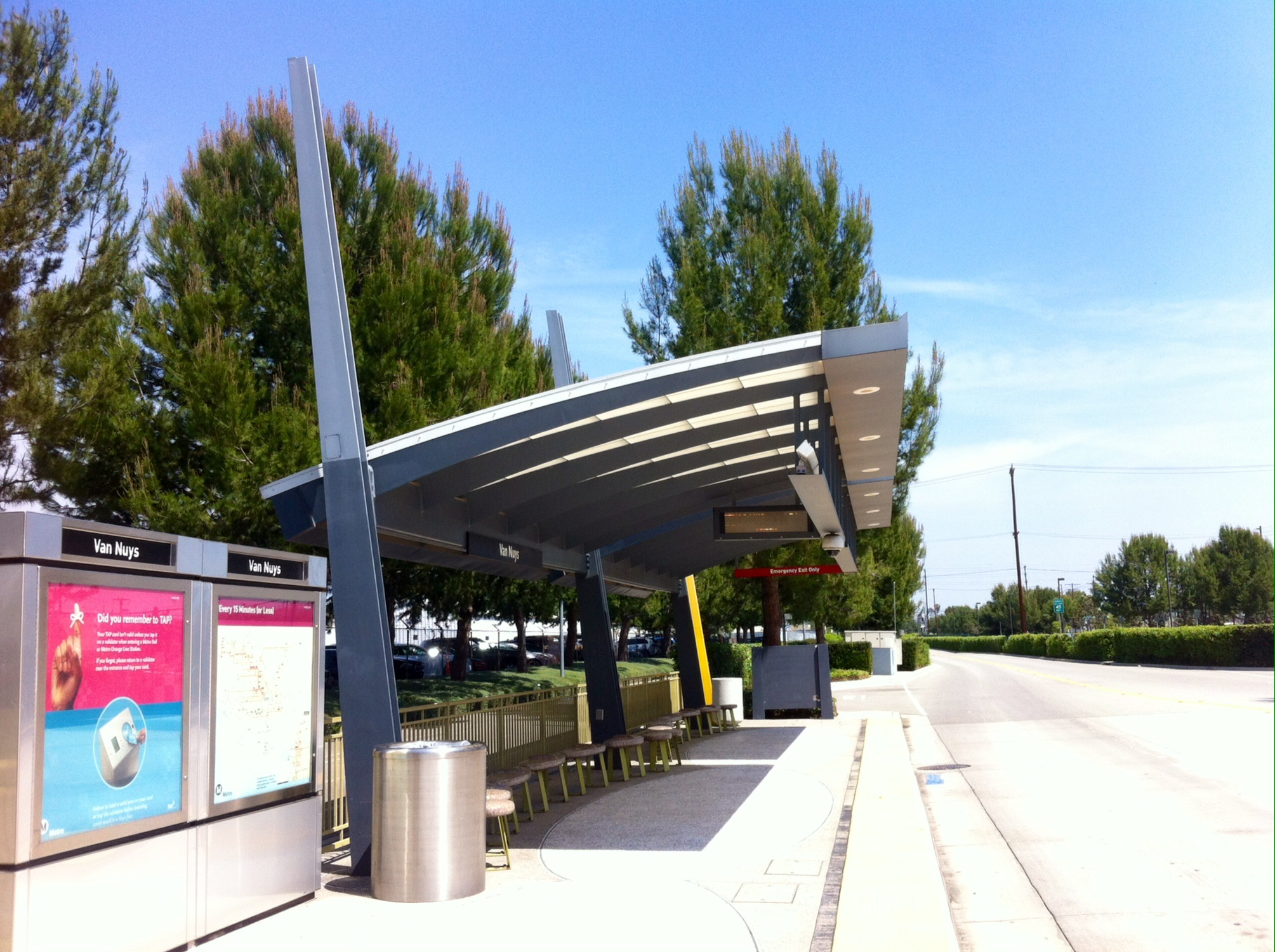 The platform of Van Nuys Station.